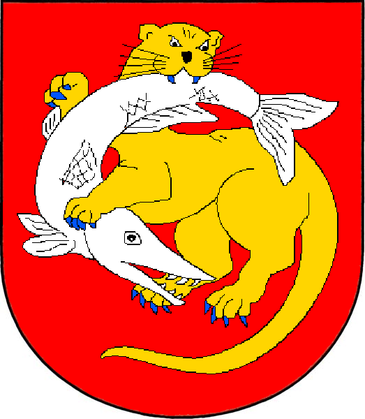 Municipal coat of arms of Chropyně town, Kroměříž District, Czech Republic.